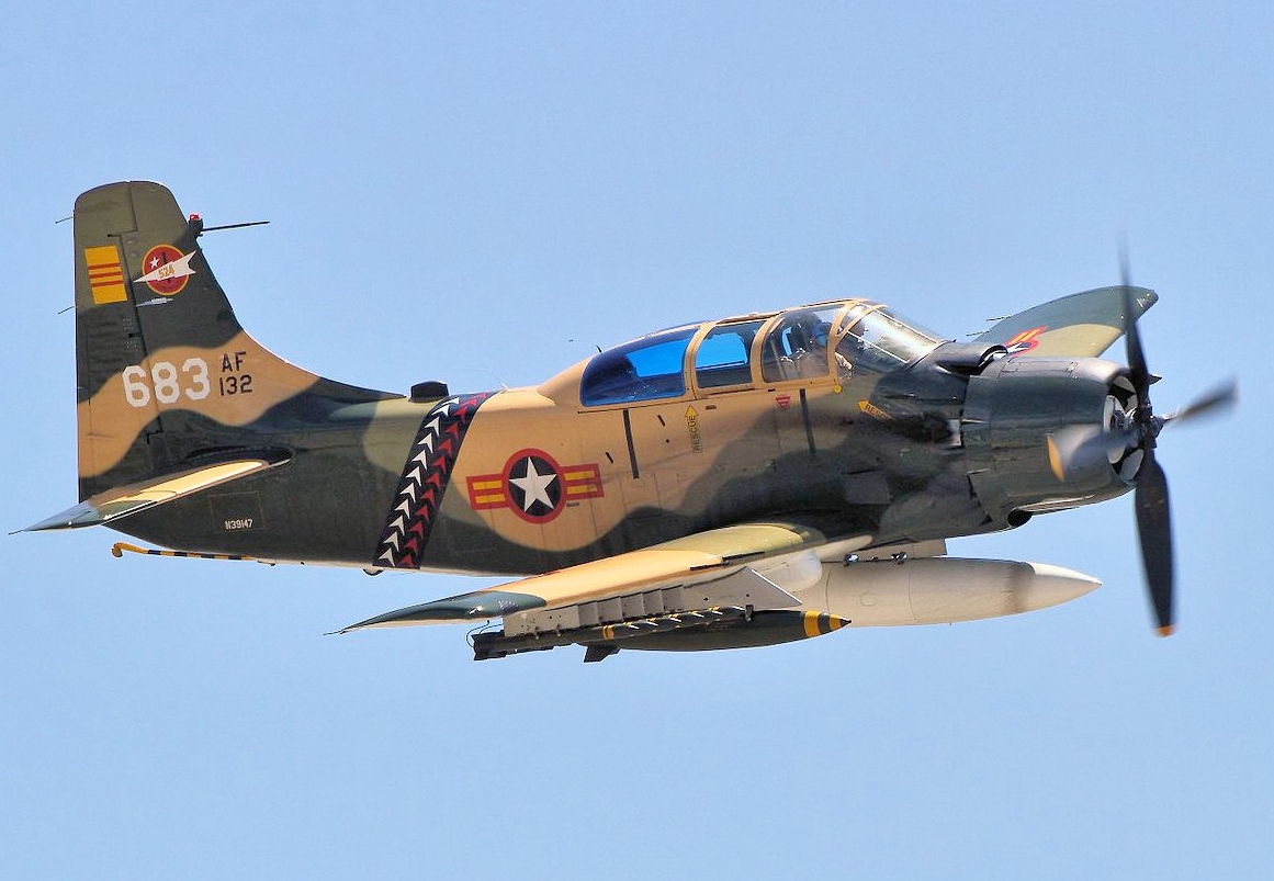 AE-1 Skyraider - Chino Airshow